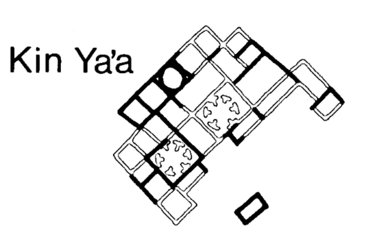 Kin Ya'a site map